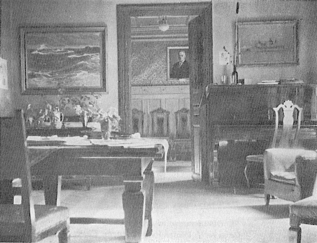 Kalmar Nation, Uppsala. First nation house. Reading room towards the celebration hall.